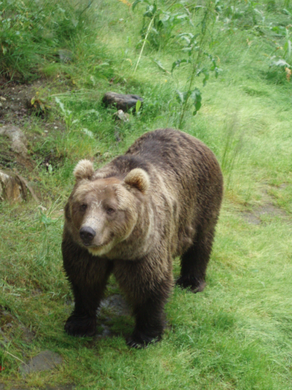 Bear, Ursus arctos, male, Polar Zoo - Bardu, Norway